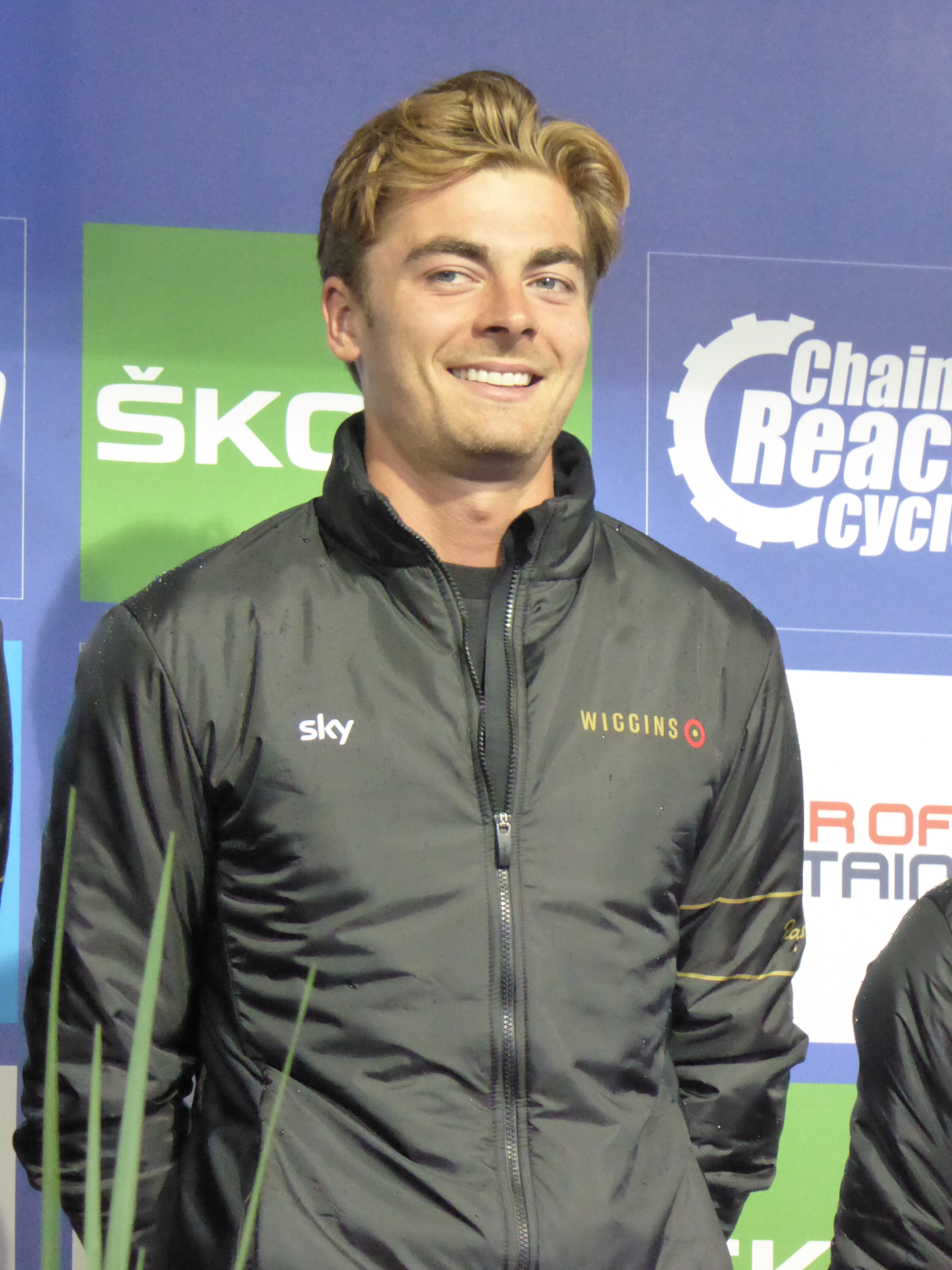 Jon Dibben (WIGGINS), pictured at the 2016 Tour of Britain team presentation in Glasgow on 3 September 2016.